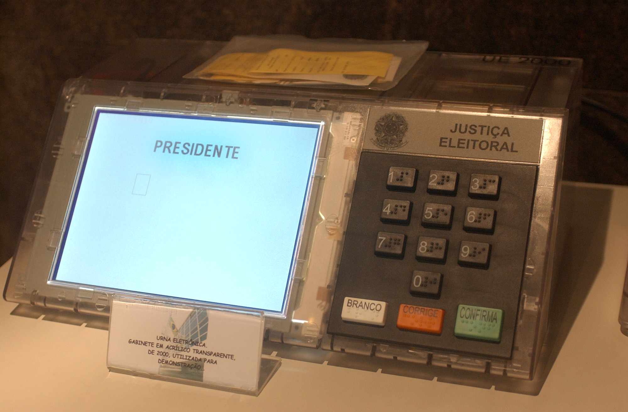 New model of an electronic voting machine to be used in 2006 Brazilian general elections.